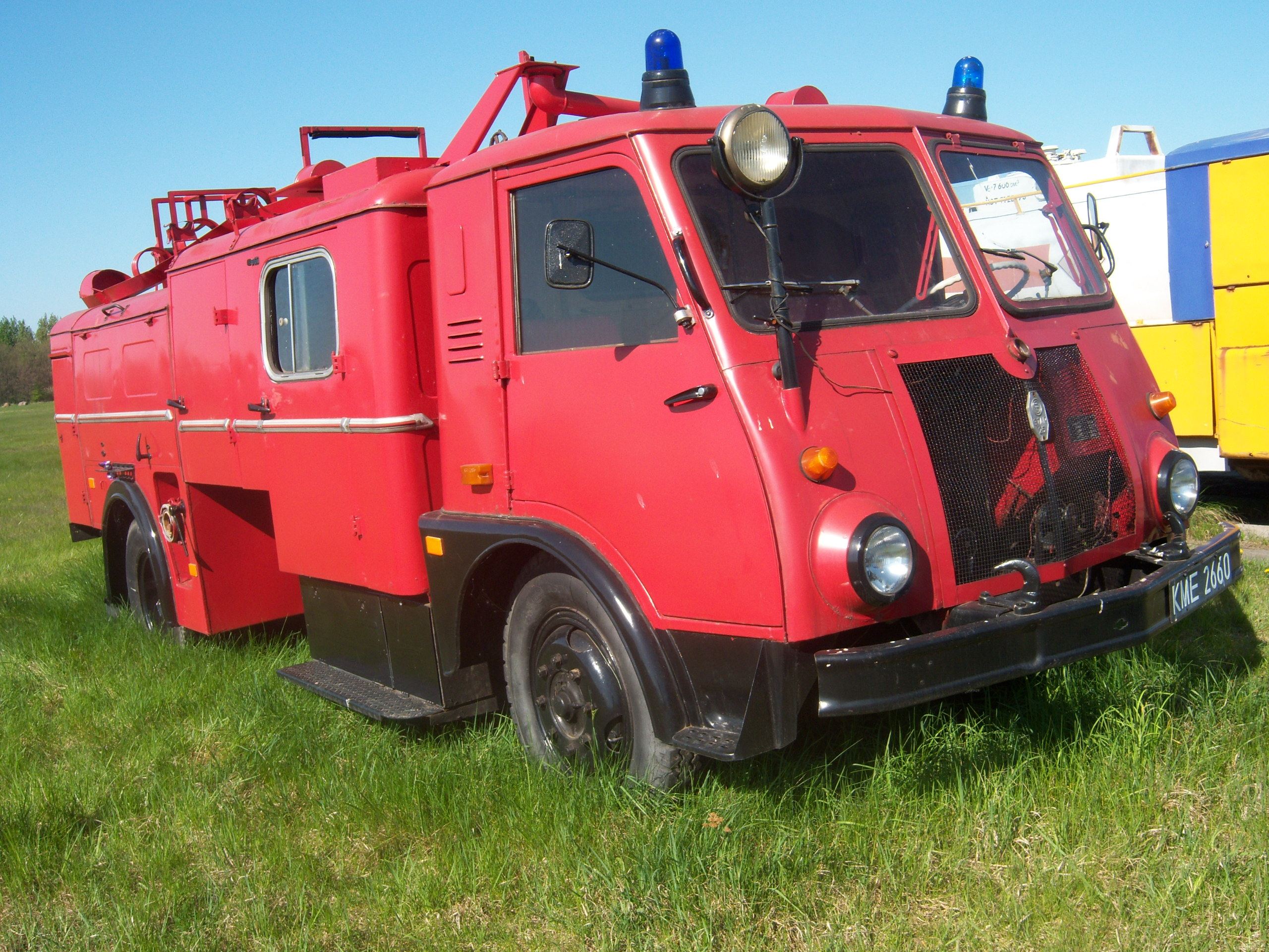 Star 25 - firefighting truck